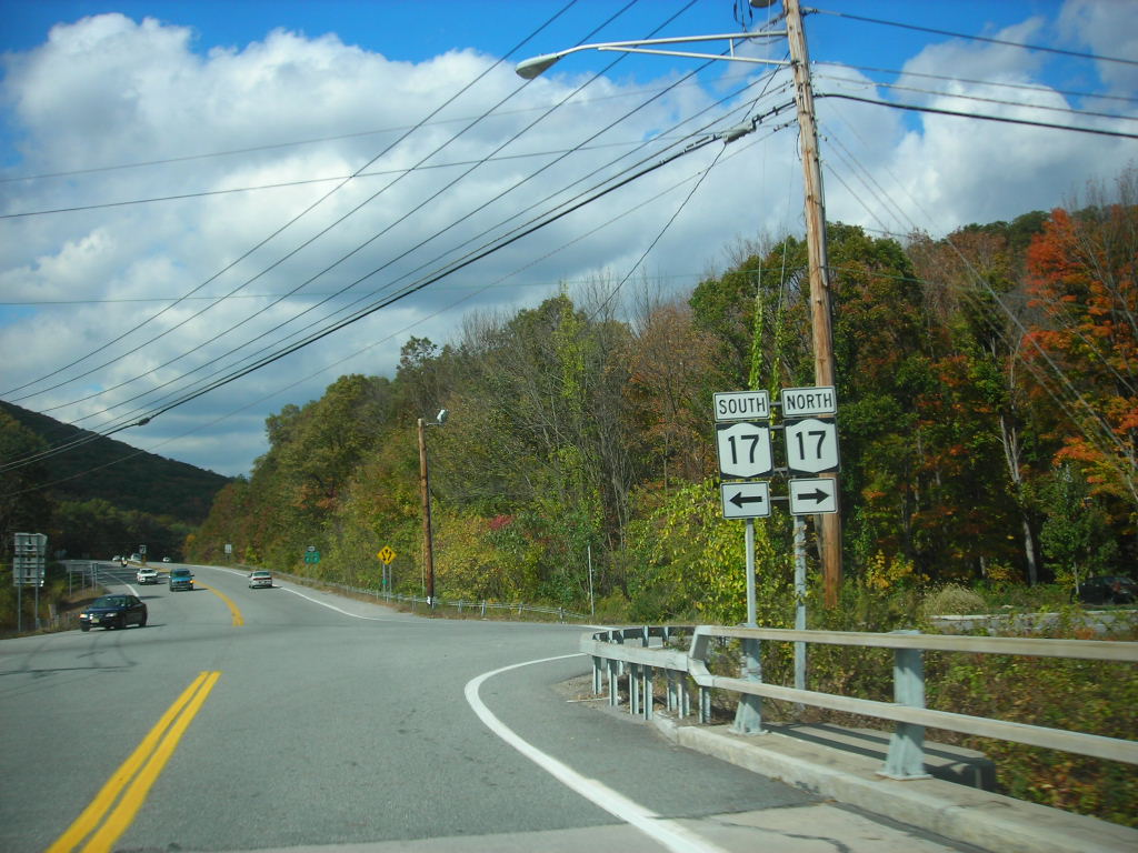 The junction of New York State Route 17 and New York State Route 17A as seen from Orange County's County Route 106. From 1930 to 1982, New York State Route 210 entered this intersection on an overlap with NY 17A and exited on what is now CR 106.